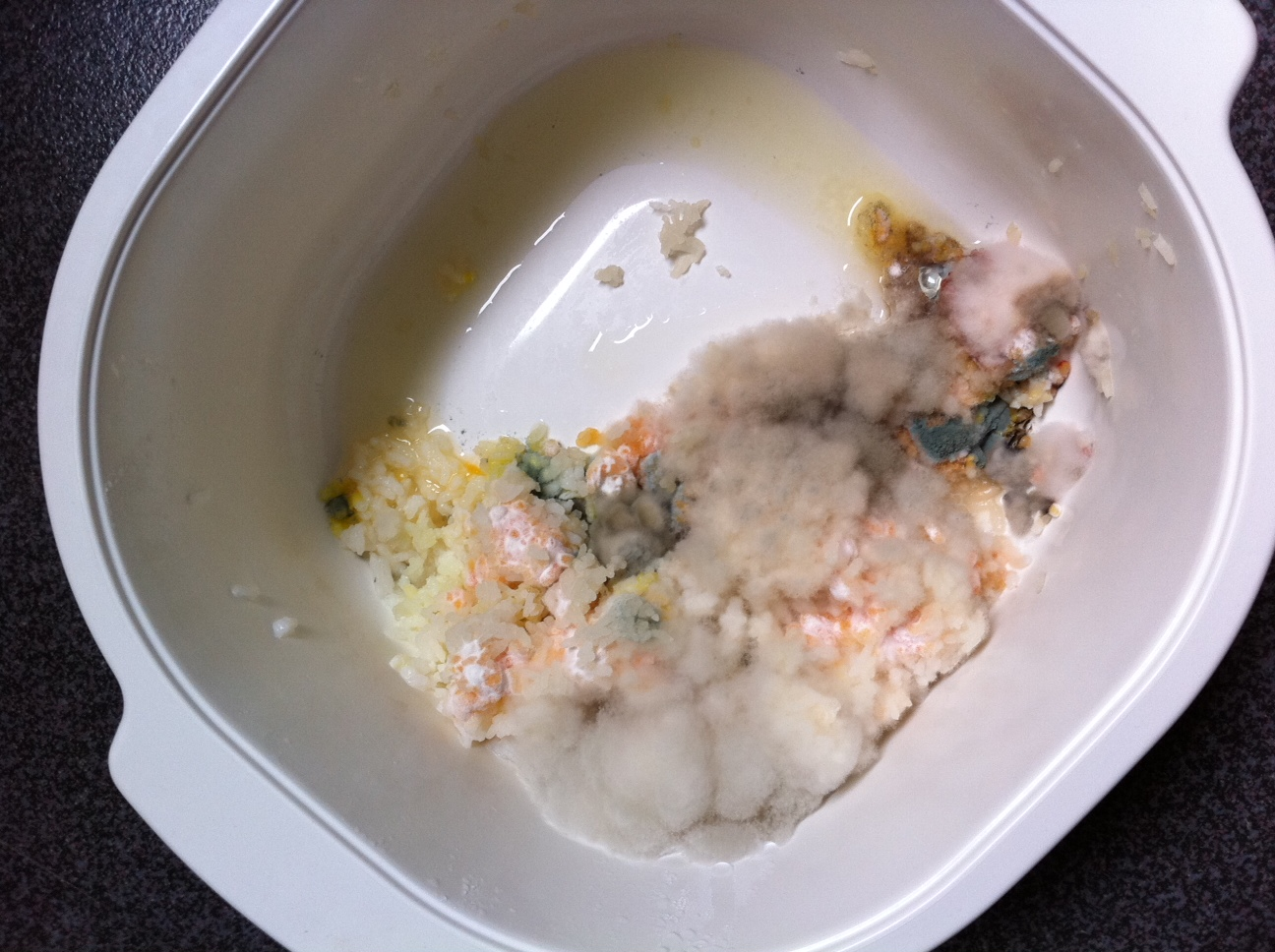 3-week old white rice with mold. (kept regrigerated)